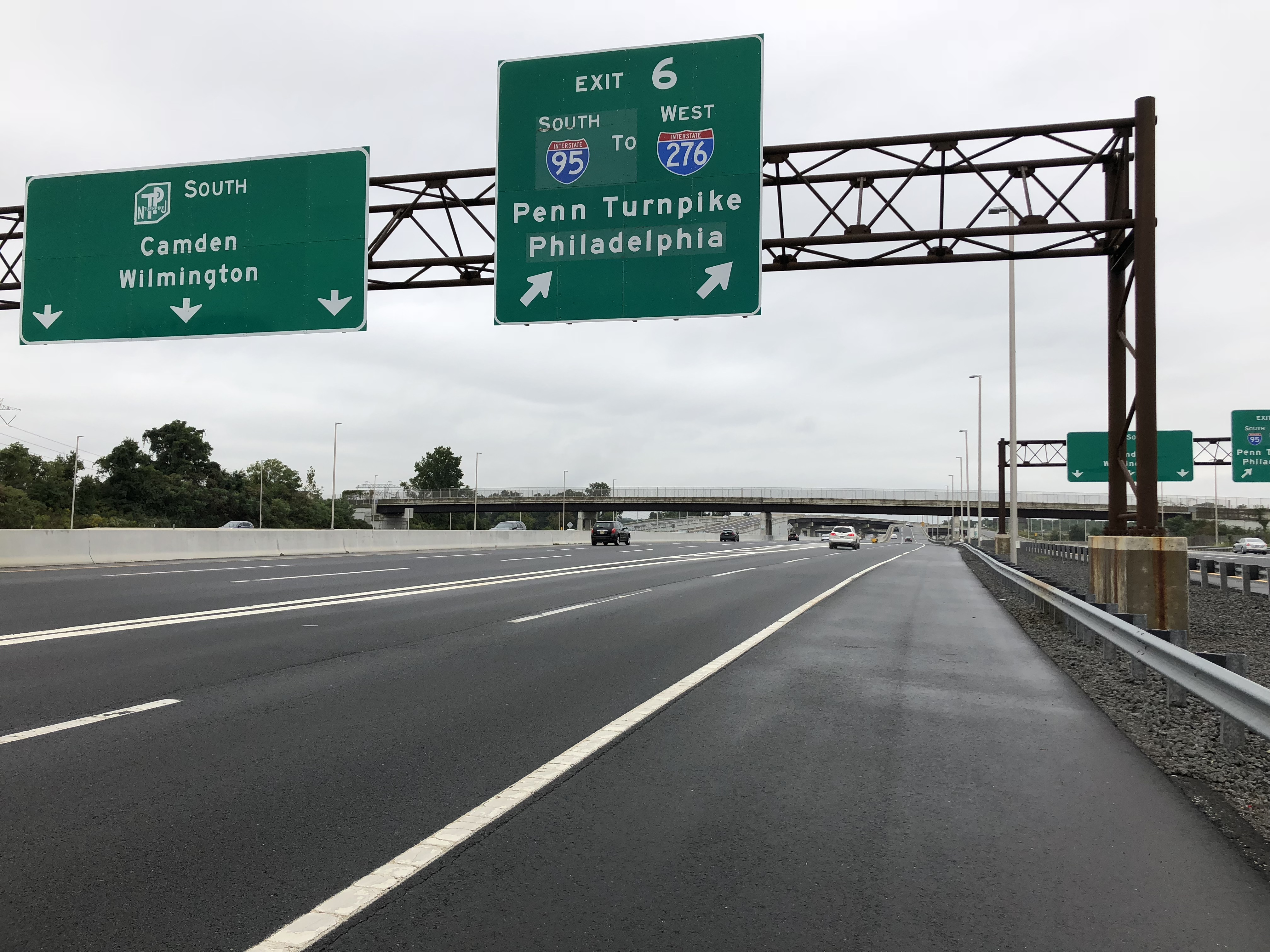 View south along Interstate 95 (New Jersey Turnpike) at Exit 6 (Interstate 95 SOUTH to Interstate 276 WEST, Pennsylvania Turnpike, Philadelphia) in Mansfield Township, Burlington County, New Jersey